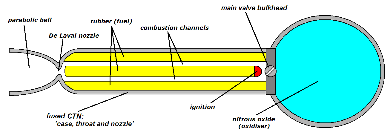 Rocket engine of Scaled Composites SpaceShipOne